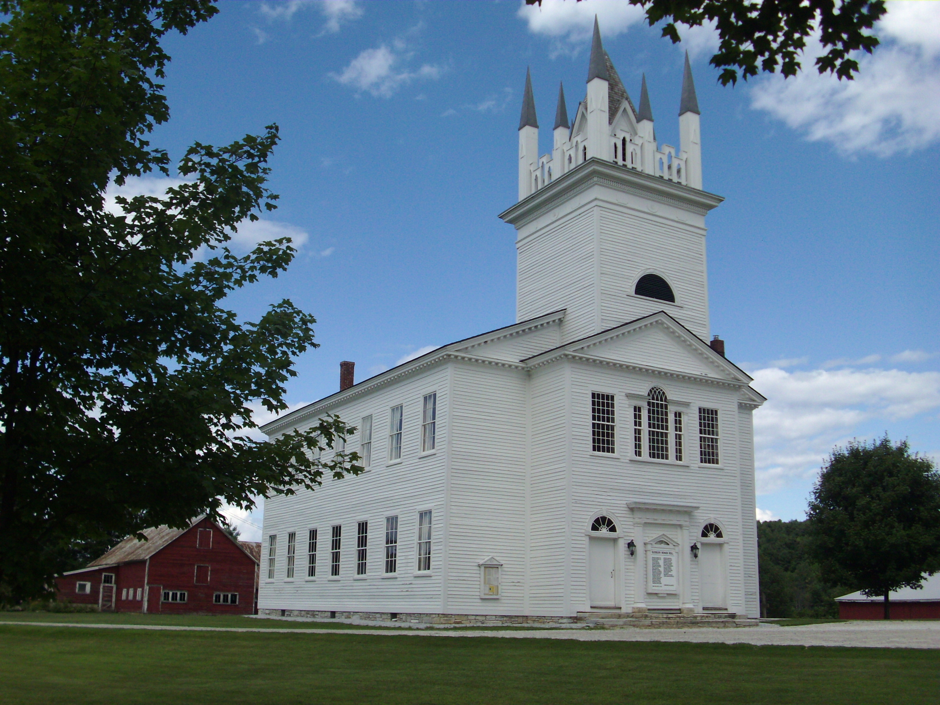 The Sudbury Congregational Church (UCC) located off of Vermont Route 30 in Sudbury, Vermont.